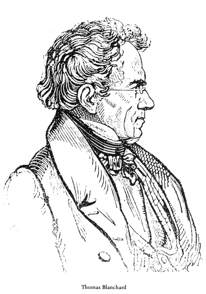 Thomas Blanchard (1788-1864) was born on June 24th, 1788, in Sutton, Massachusetts, near Worcester. His first invention was a tack-making machine which he invented at age eighteen and perfected over the next six years. This made production of tacks, which Thomas and his brother had been previously engaged in making, easier and more efficient at a rate of five-hundred per minute. Soon he was working for Asa Waters, a major contractor in nearby Millbury, producing flintlock muskets supplementing those made at Springfield Armory. Thomas Blanchard's invention of the duplicating lathe, first used at Springfield Armory, was one of the most significant developments in American industrial history. It permitted exact duplication of irregular wooden shapes, such as gun stocks. This was an important step in creating mass production techniques. The original machines relied on water power at the Water Shops.